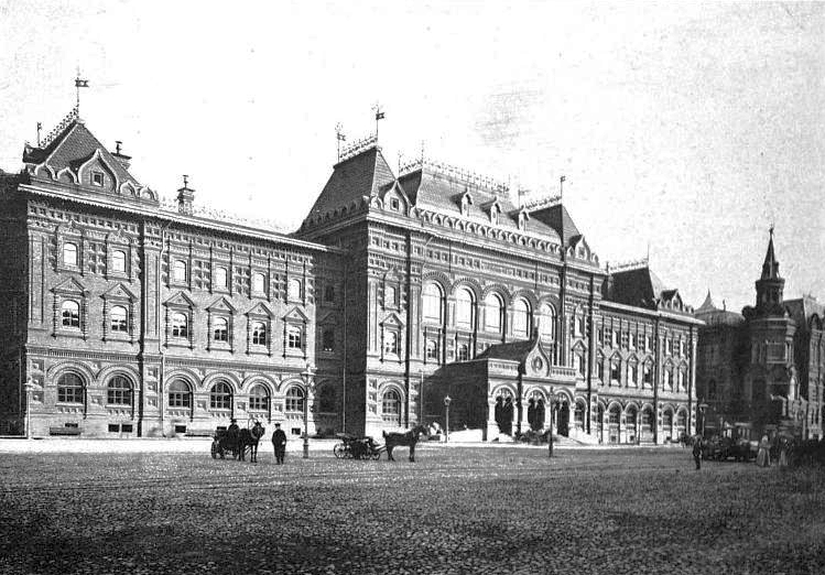 Moscow Duma, Moscow, Russia, 1905